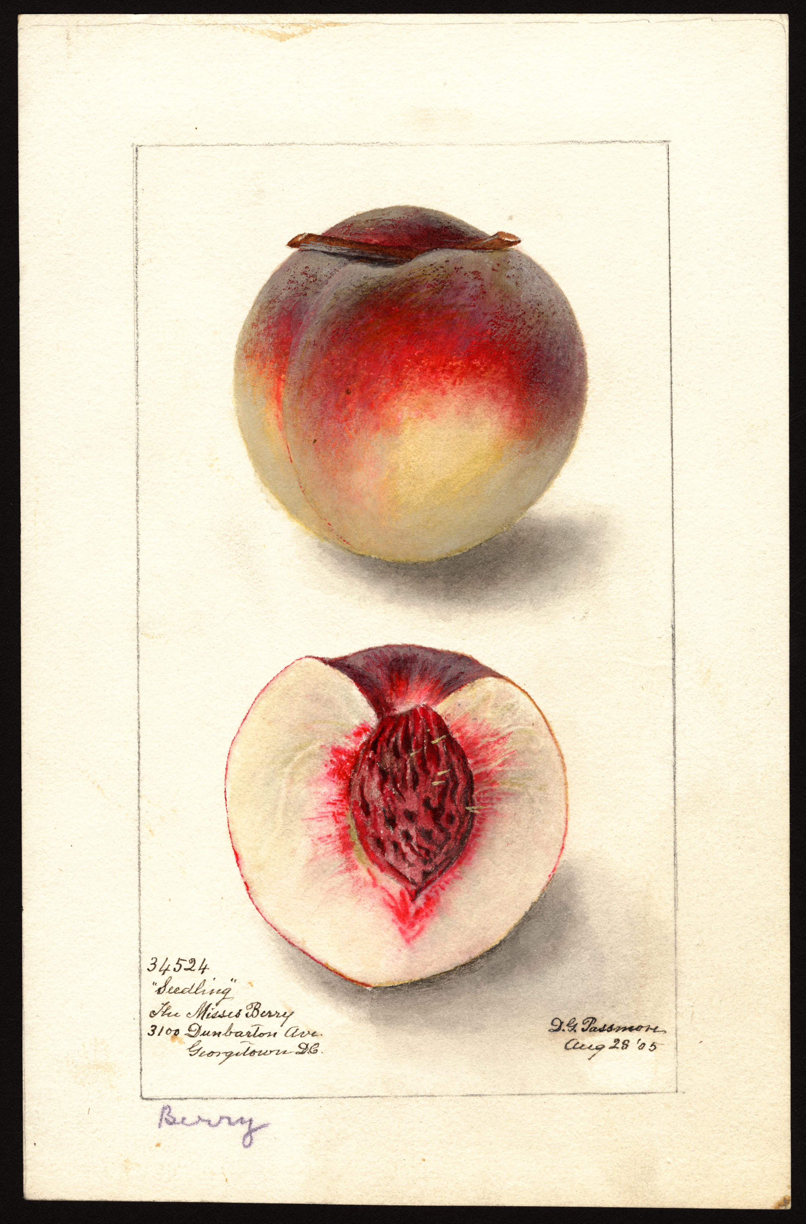 Image of the Berry variety of peaches (scientific name: Prunus persica), with this specimen originating in Washington, D.C., United States. Source: U.S. Department of Agriculture Pomological Watercolor Collection. Rare and Special Collections, National Agricultural Library, Beltsville, MD 20705.